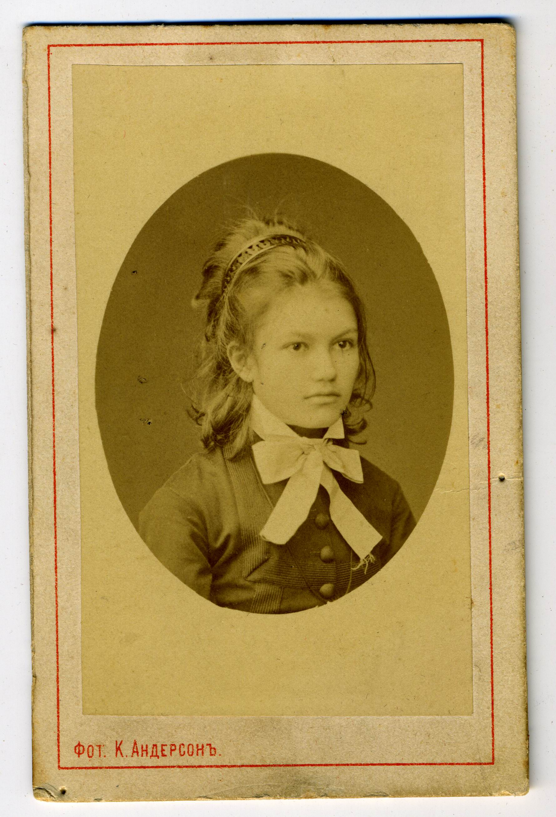 Zofia Przysiecka - A teenage girl from Gadyach pansion